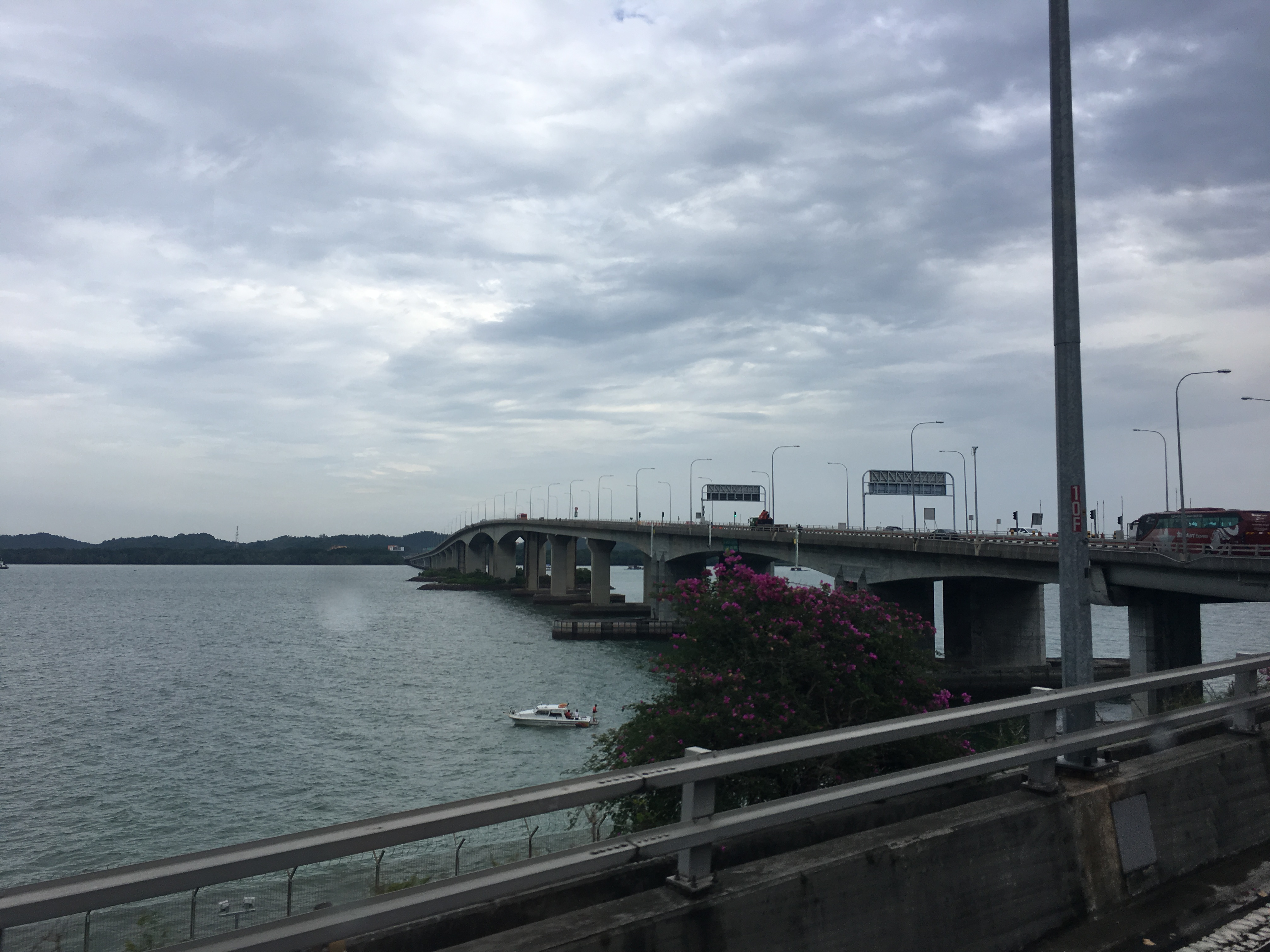 The photo was taken facing the Malaysian side of the Second Link bridge. It was taken right after leaving the Tuas Checkpoint complex to go onto the bridge.